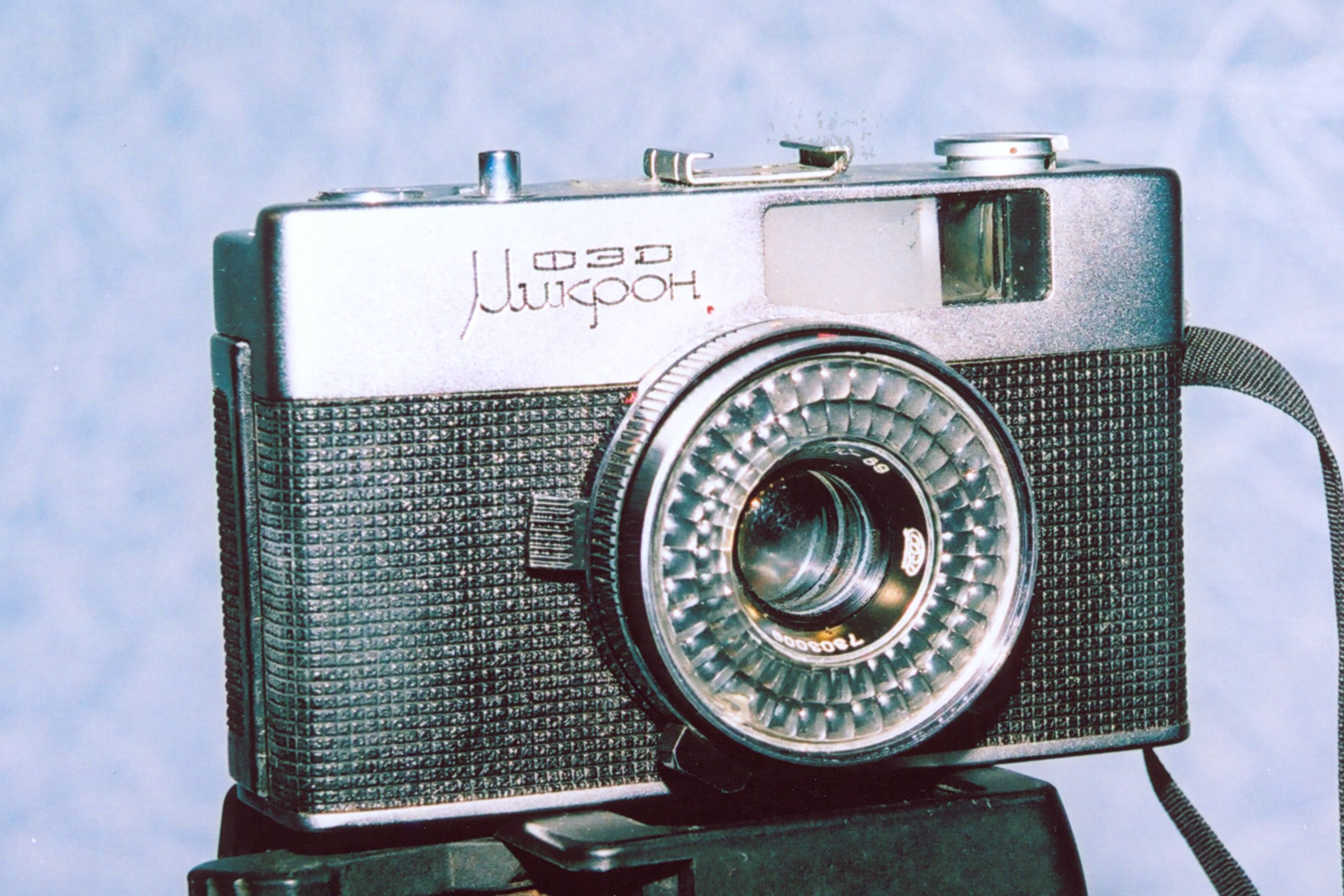 Фотоаппарат ФЭД-Микрон